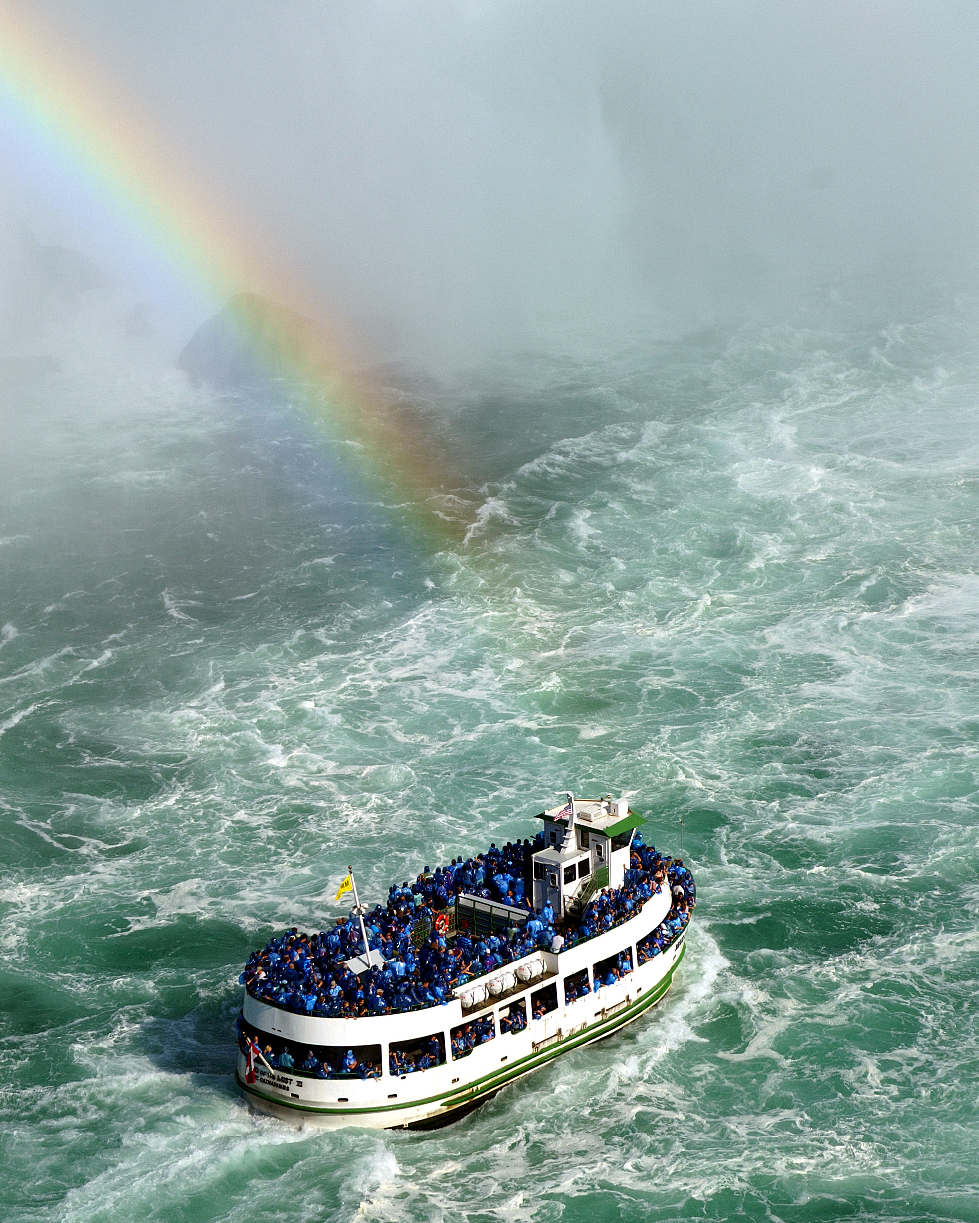 One of the Maid of the Mist tour boats approaching the Horseshoe Falls on the Canadian side of Niagara Falls.